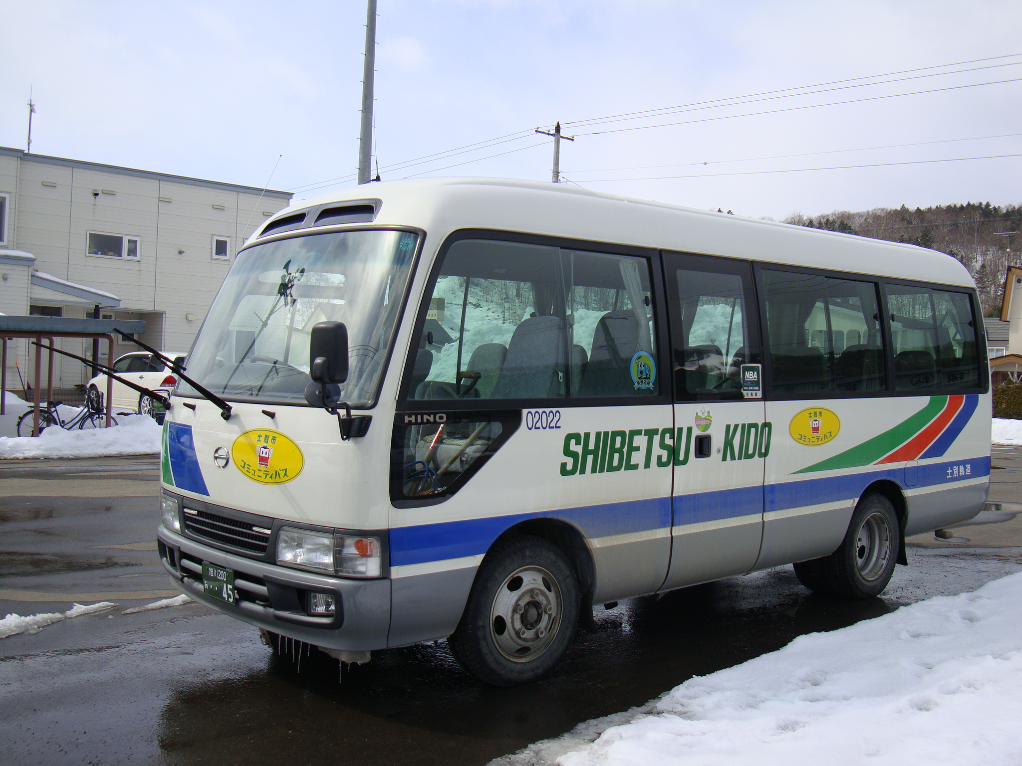 Shibetsu City Community Bus